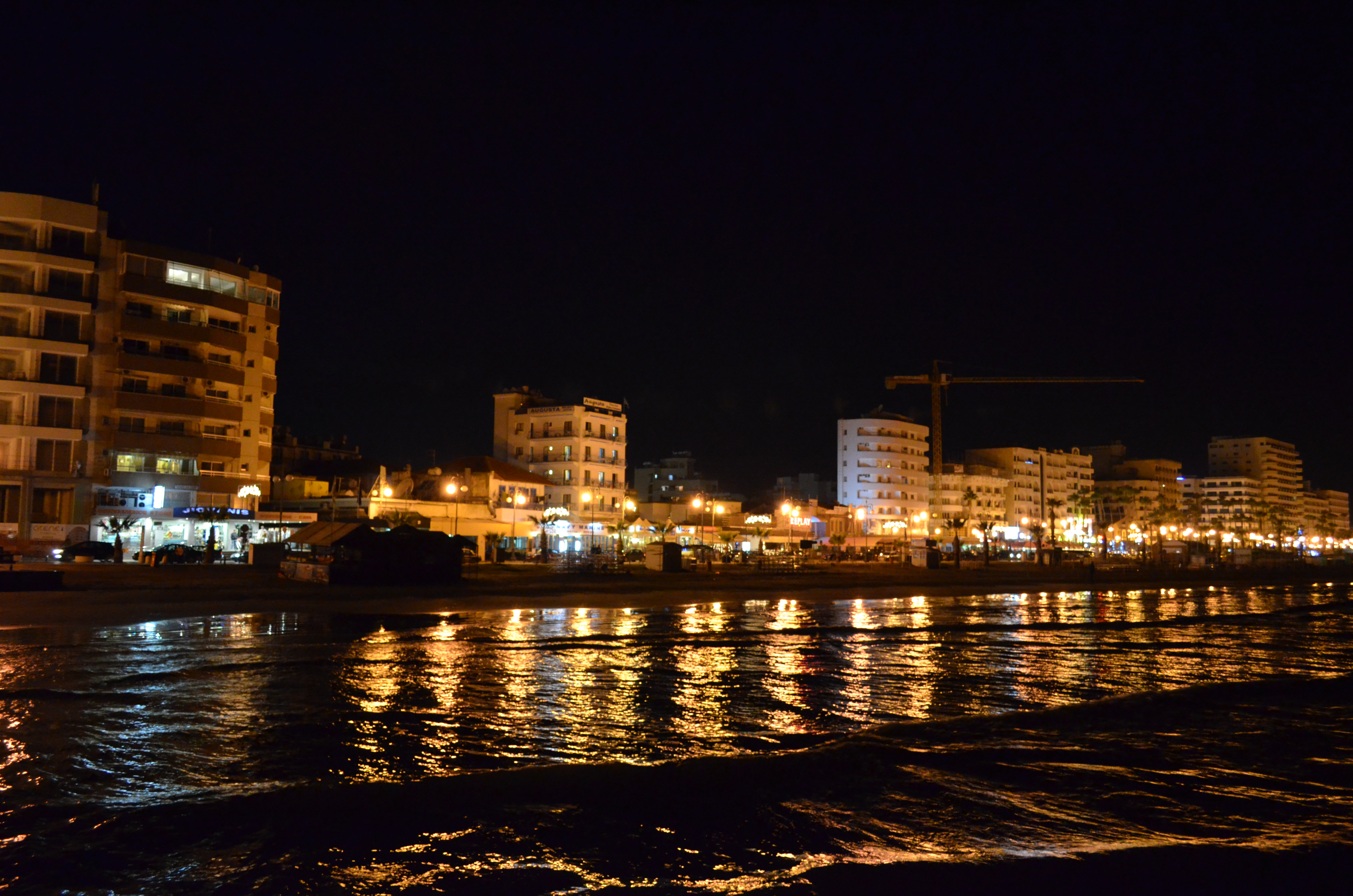 palm trees promenade by night (foinikoudes)